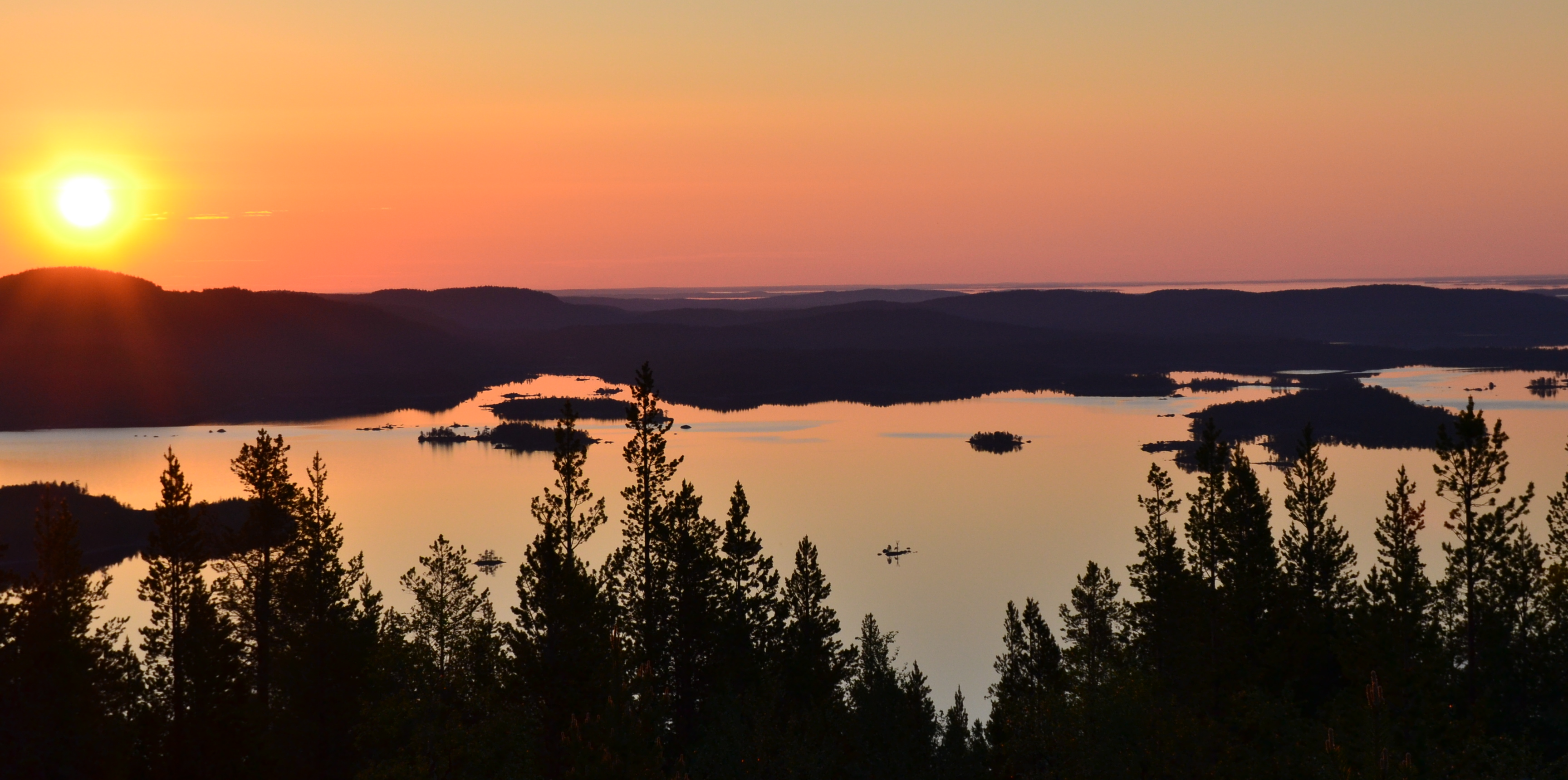 Midnight sun